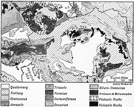 Geological Map of Austria-Hungary.Illustration from 1911 Encyclopædia Britannica, article Austria.